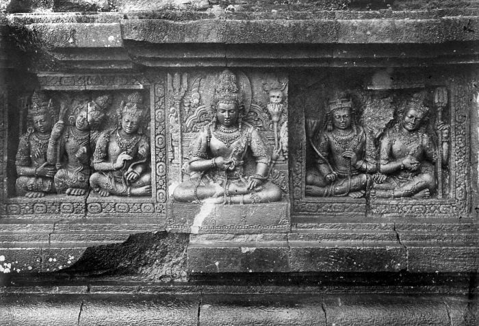 Lokapala relief at the temple dedicated to Shiva at the Candi Lara Jonggrang or Prambanan temple complex